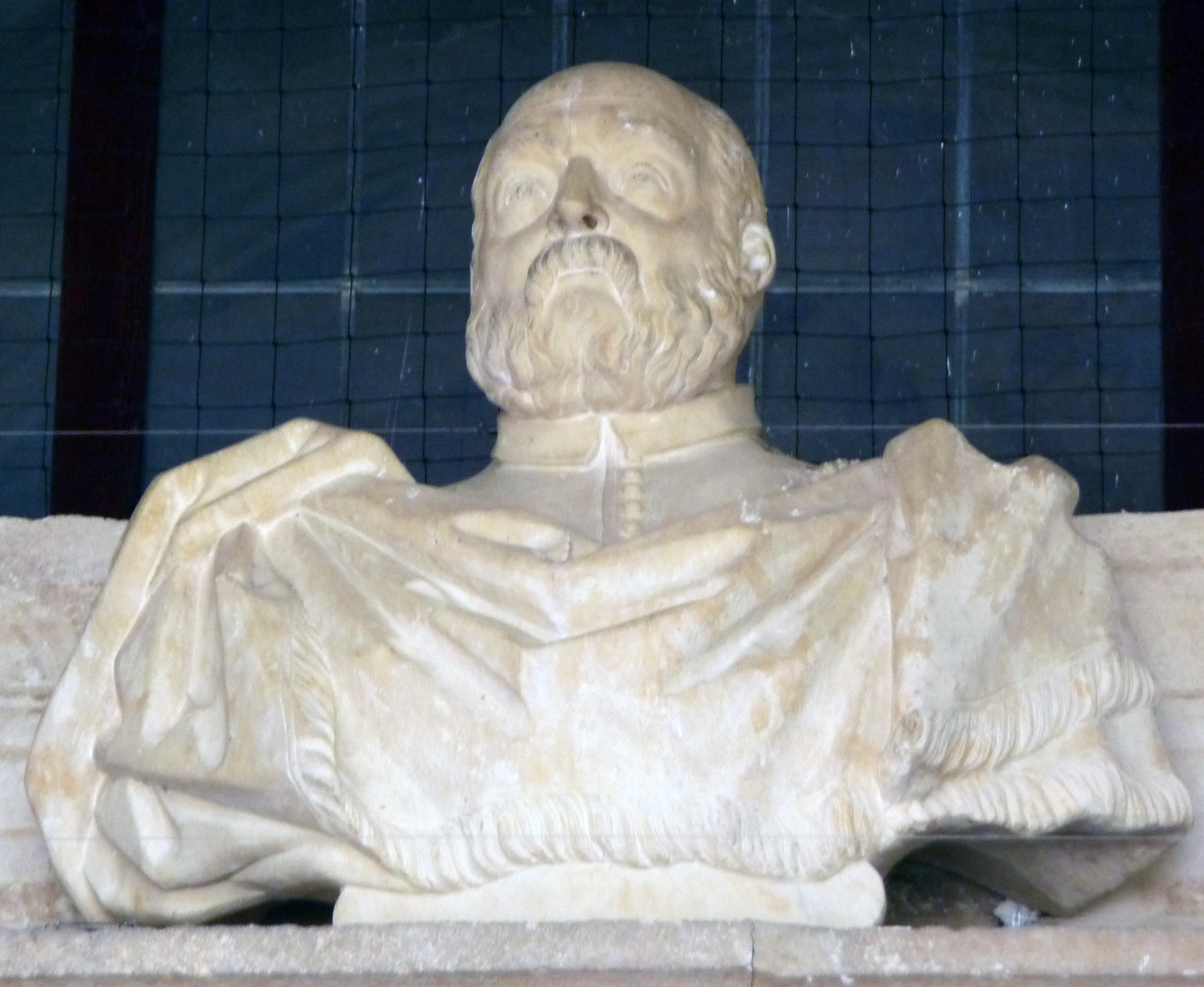 Villa Pojana is a patrician villa in Pojana Maggiore, a locality of the Veneto region of (northern Italy). It was designed by the Renaissance architect Andrea Palladio.